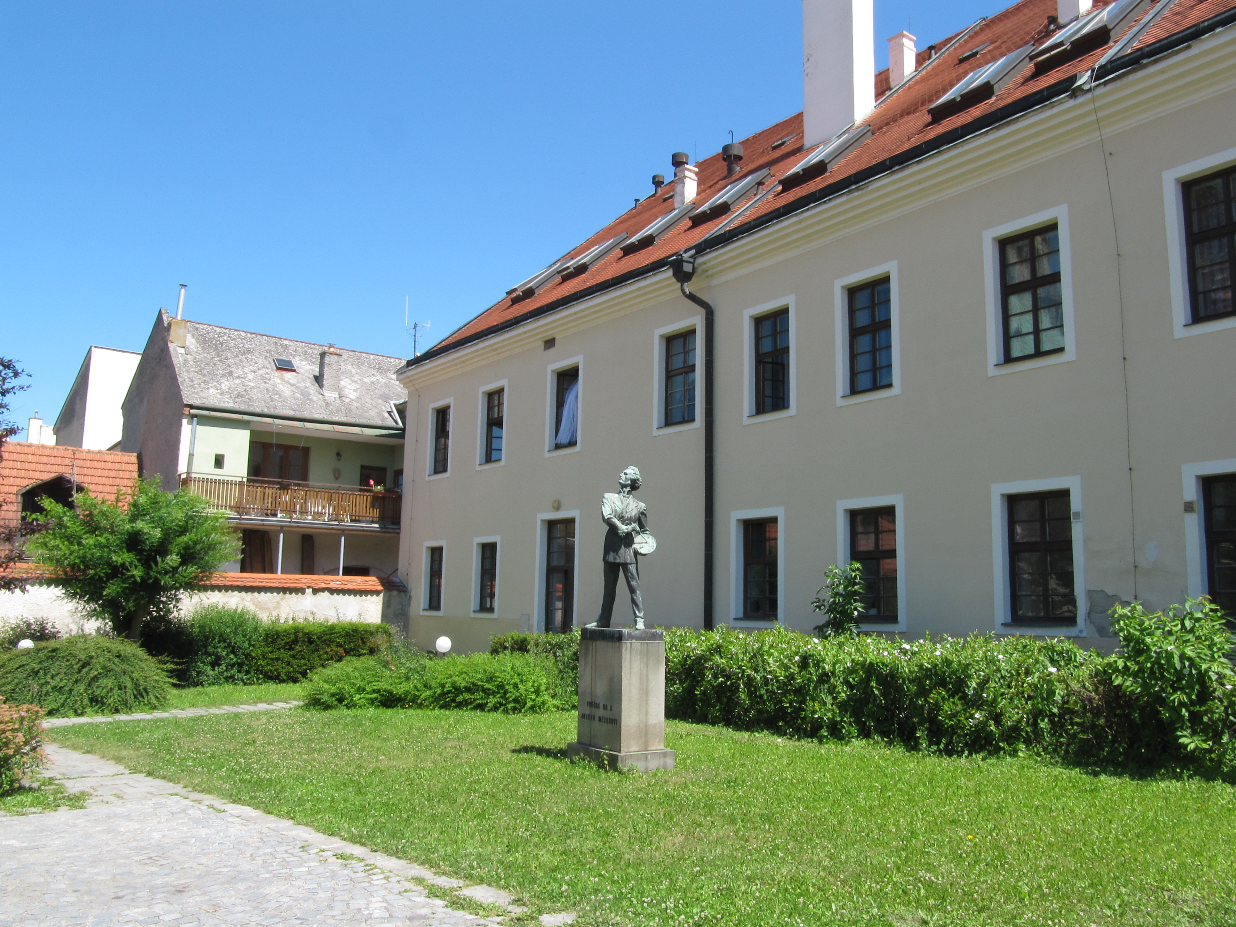 Kroměříž, Czech Republic. Monument to Josef Mánes.